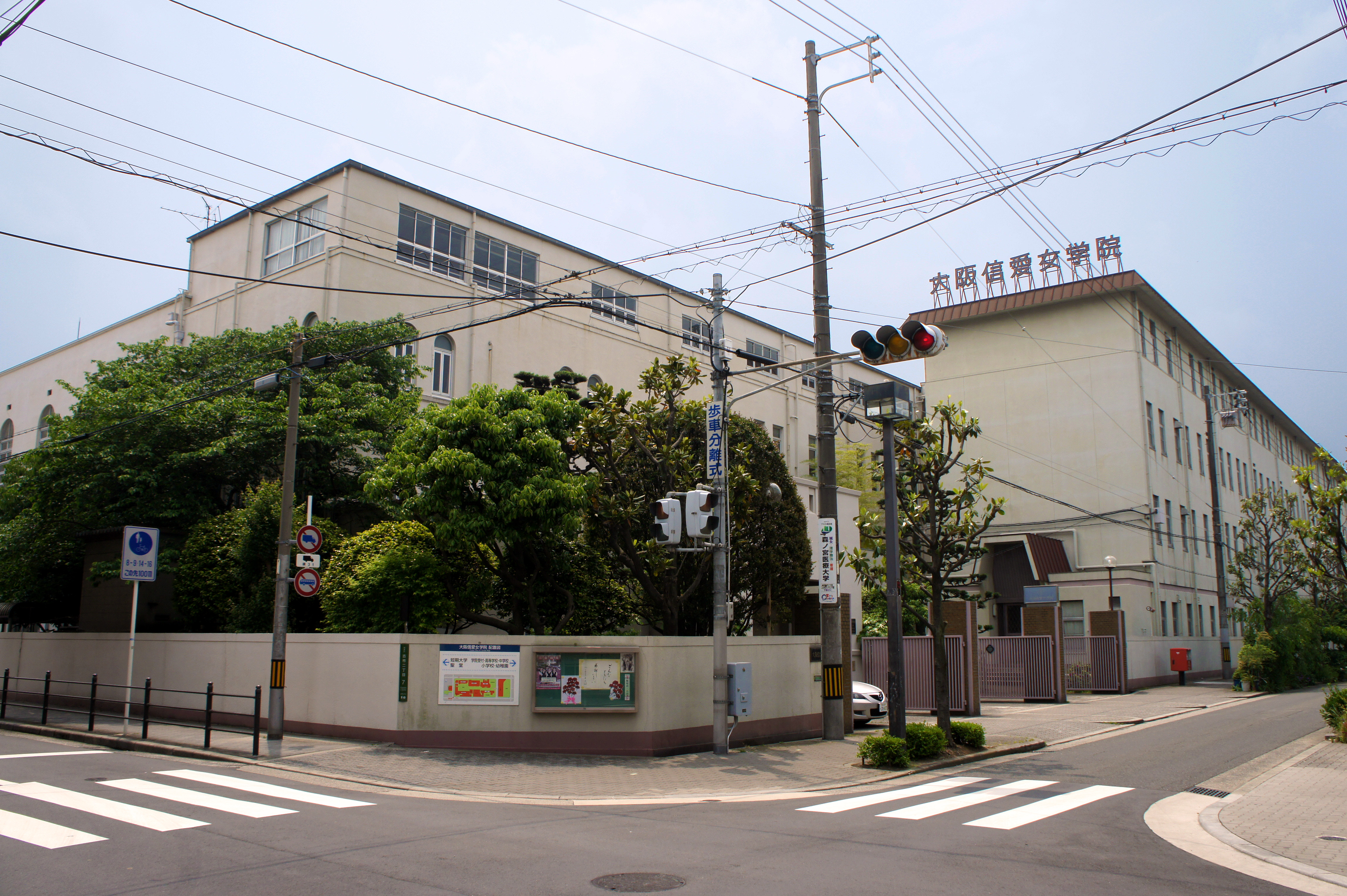 Osaka Shin-Ai Jogakuin, 2-7-30 Furuichi Joto-ku Osaka-City Osaka Japan.